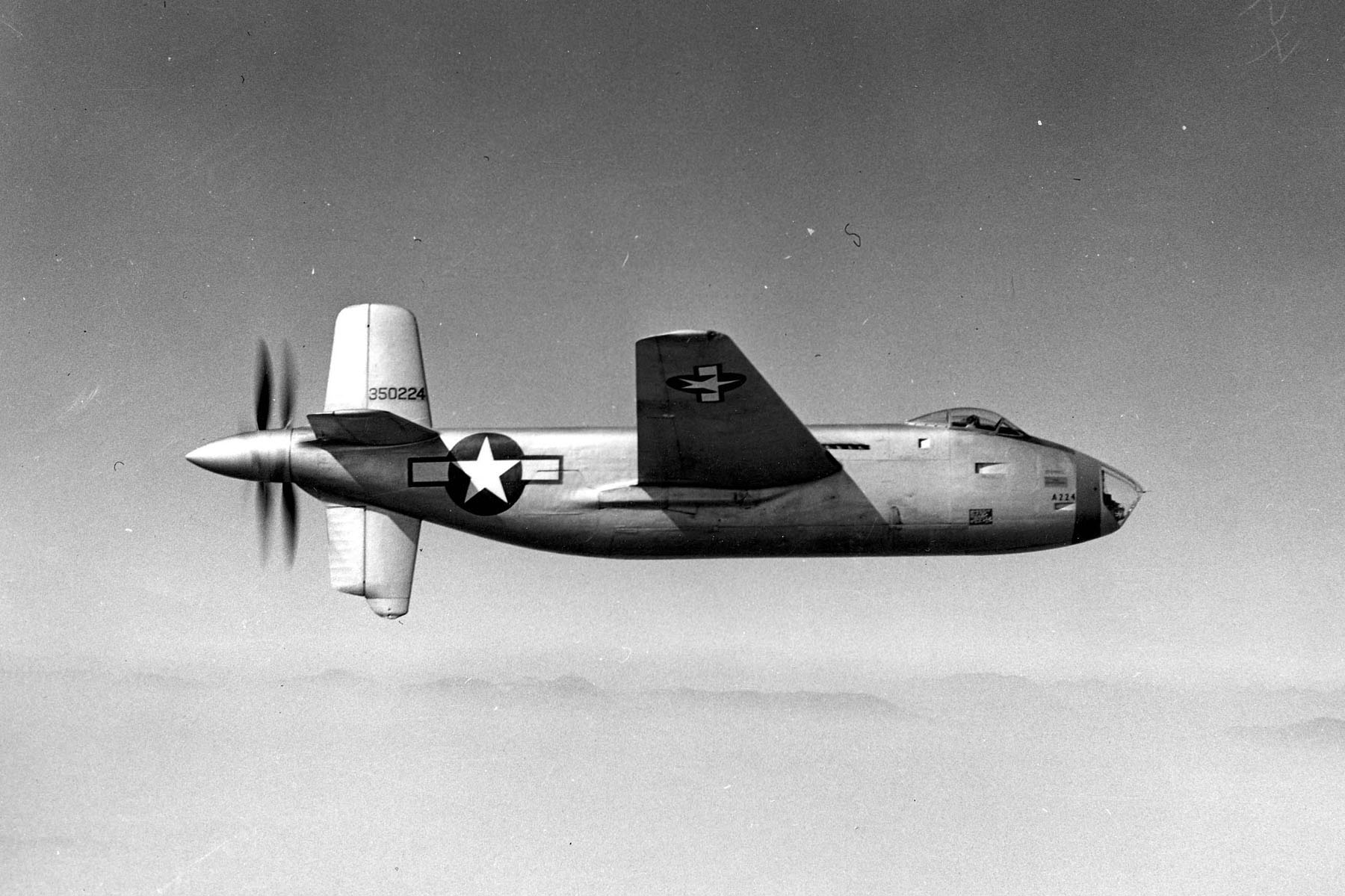 Douglas XB-42A